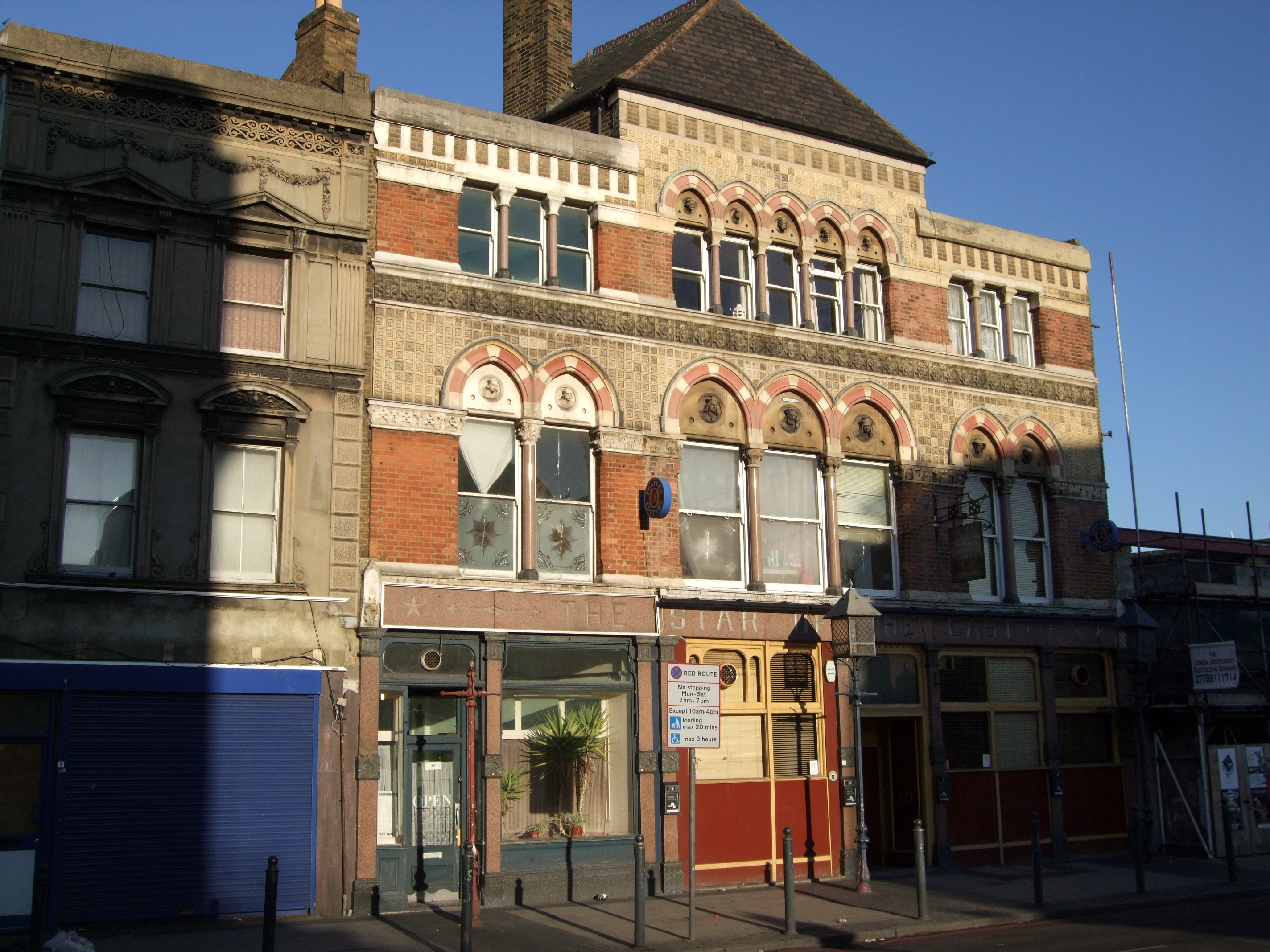 A very striking old building down the end of Commercial Rd. Address: 805 Commercial Road (formerly at St Annes Place). Owner: Courage (former). Links: Beer in the Evening Dead Pubs (history)